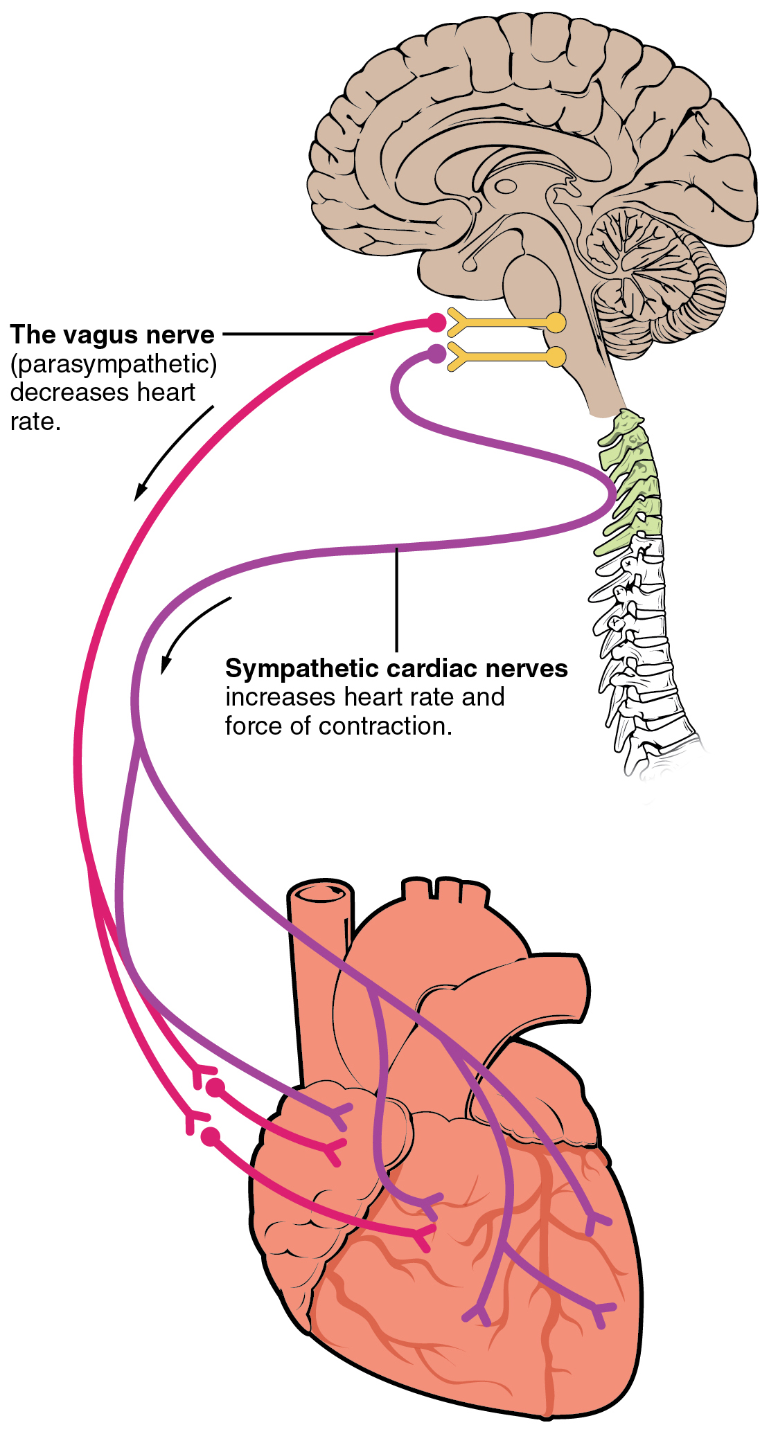 Illustration from Anatomy & Physiology, Connexions Web site. Jun 19, 2013.